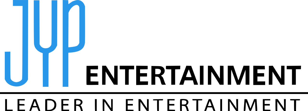 Ini adalah logo dari JYP Entertainment.